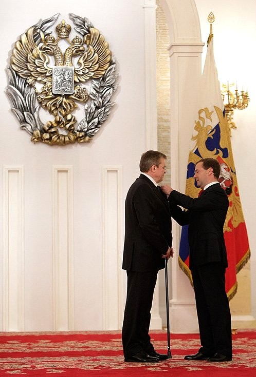 Dmitry Medvedev and Vladislav Panchenko at State Prize of the Russian Federation awarding